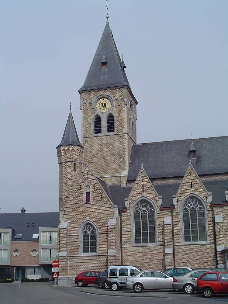 Church of Saint Martin in Lovendegem